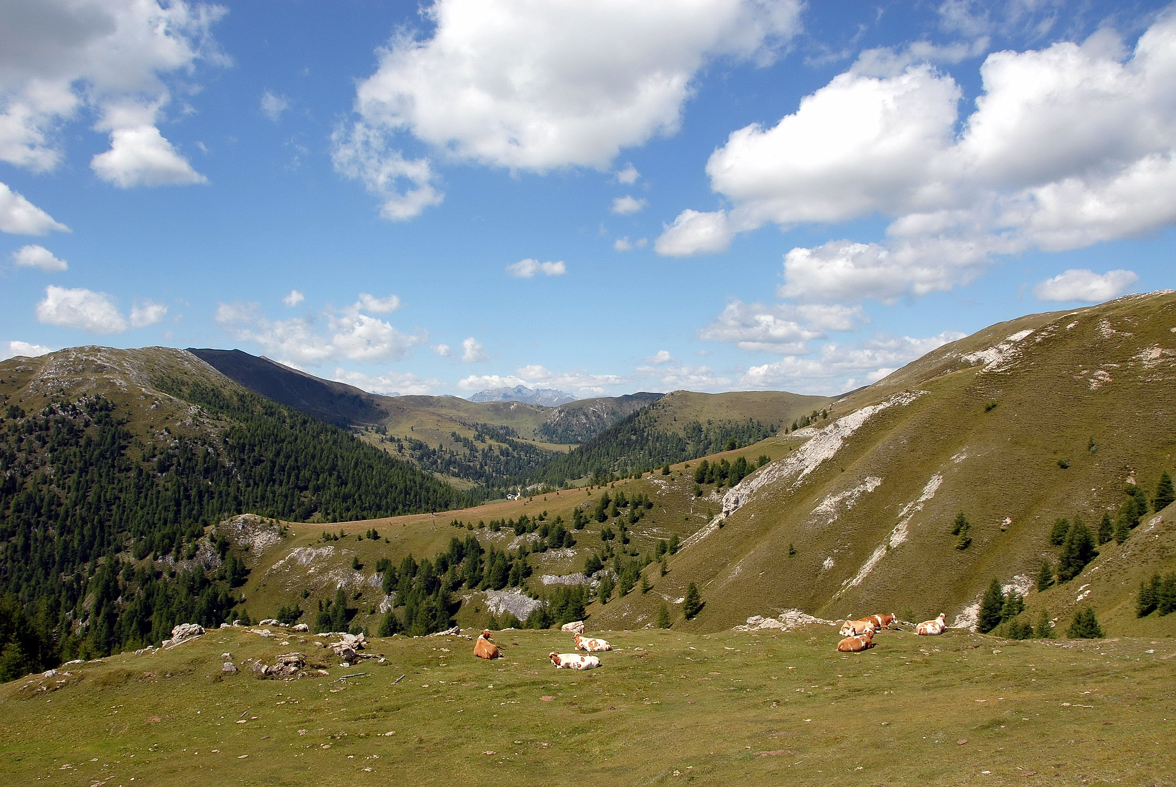 Landscape in the national park Nockalm in the district Feldkirchen in Carinthia / Austria / EU.